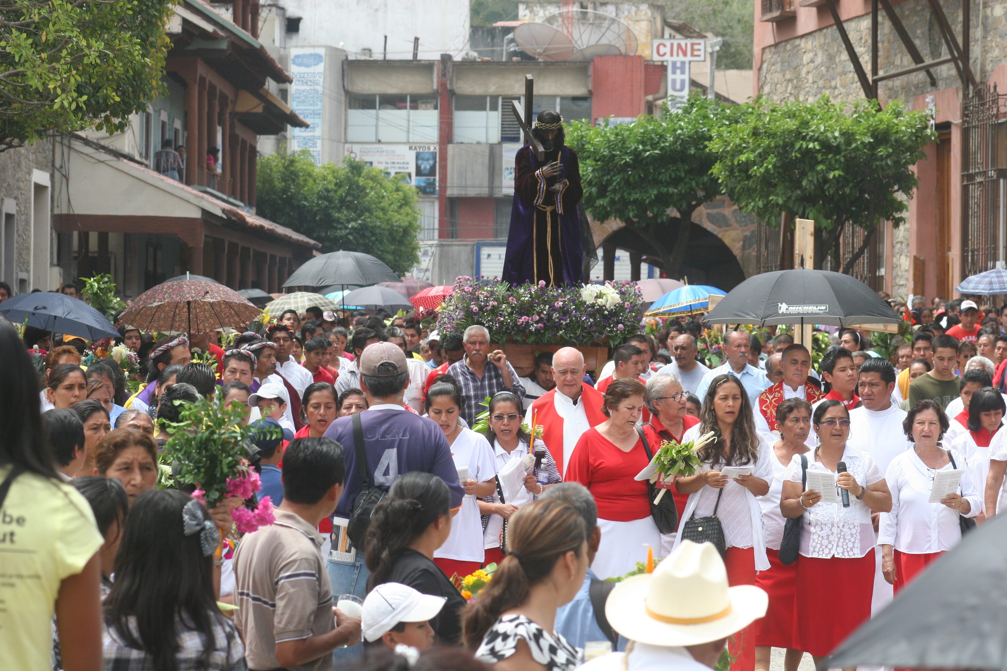 Mexican Holy Week (Semana Santa) ritual in the town of Huejutla in Hidalgo, Mexico.